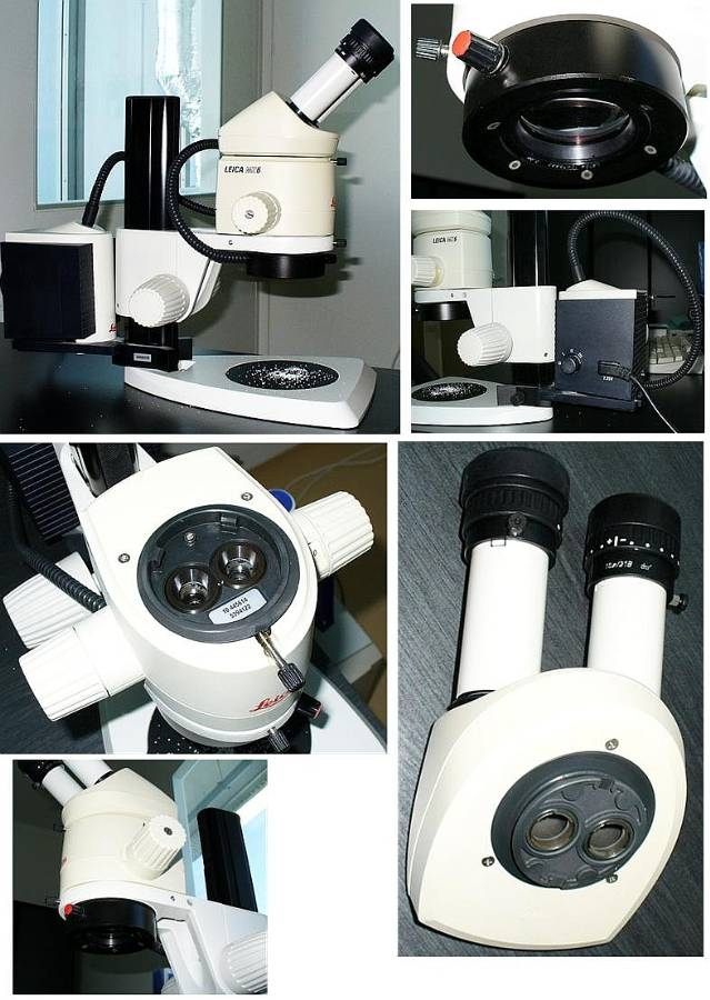 Stereo microscope.